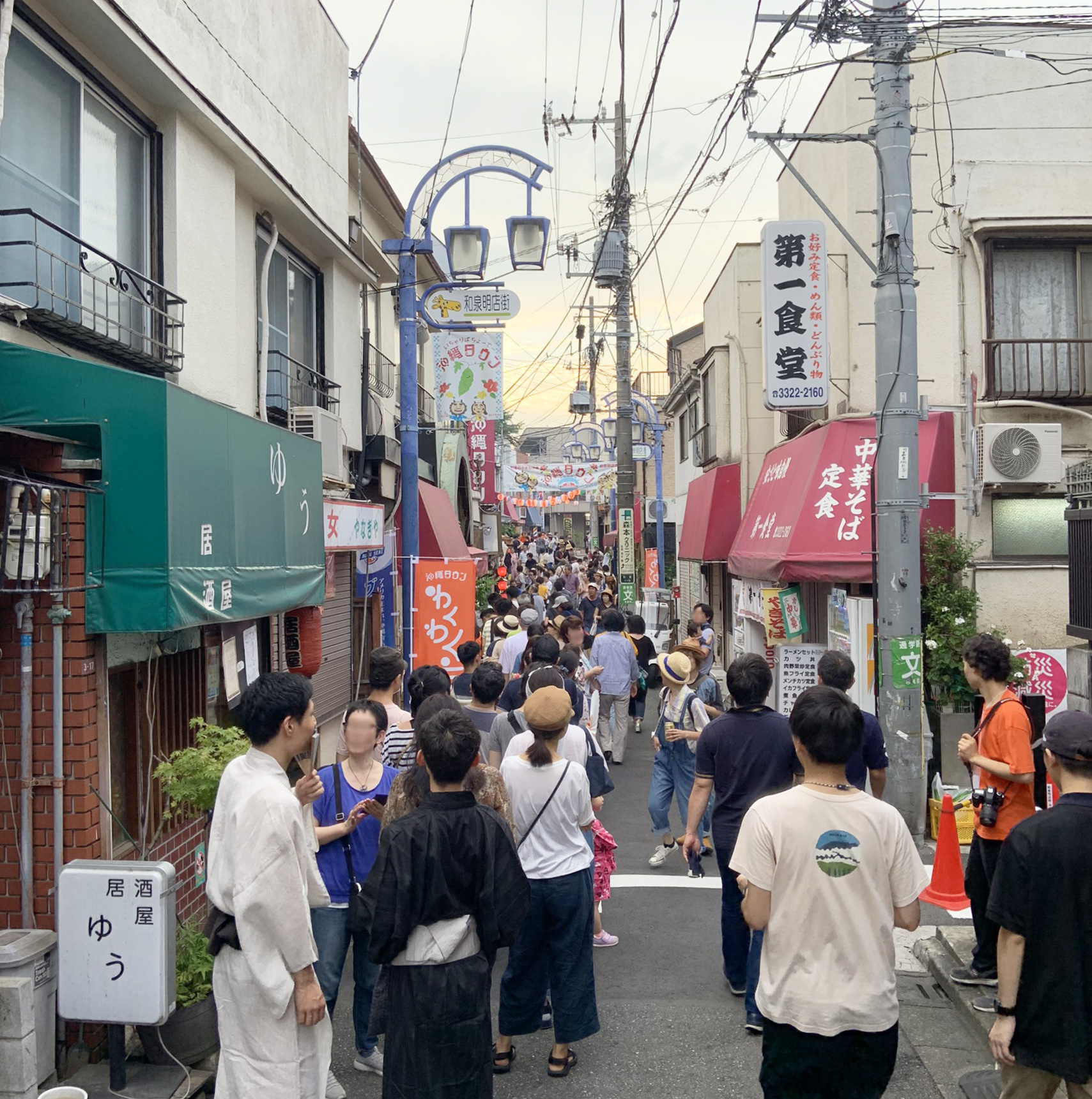 A crowd in Okinawa Town, Izumi Meitengai Street, Suginami Ward, Tokyo. Sunday evening, 28th July, 2019.